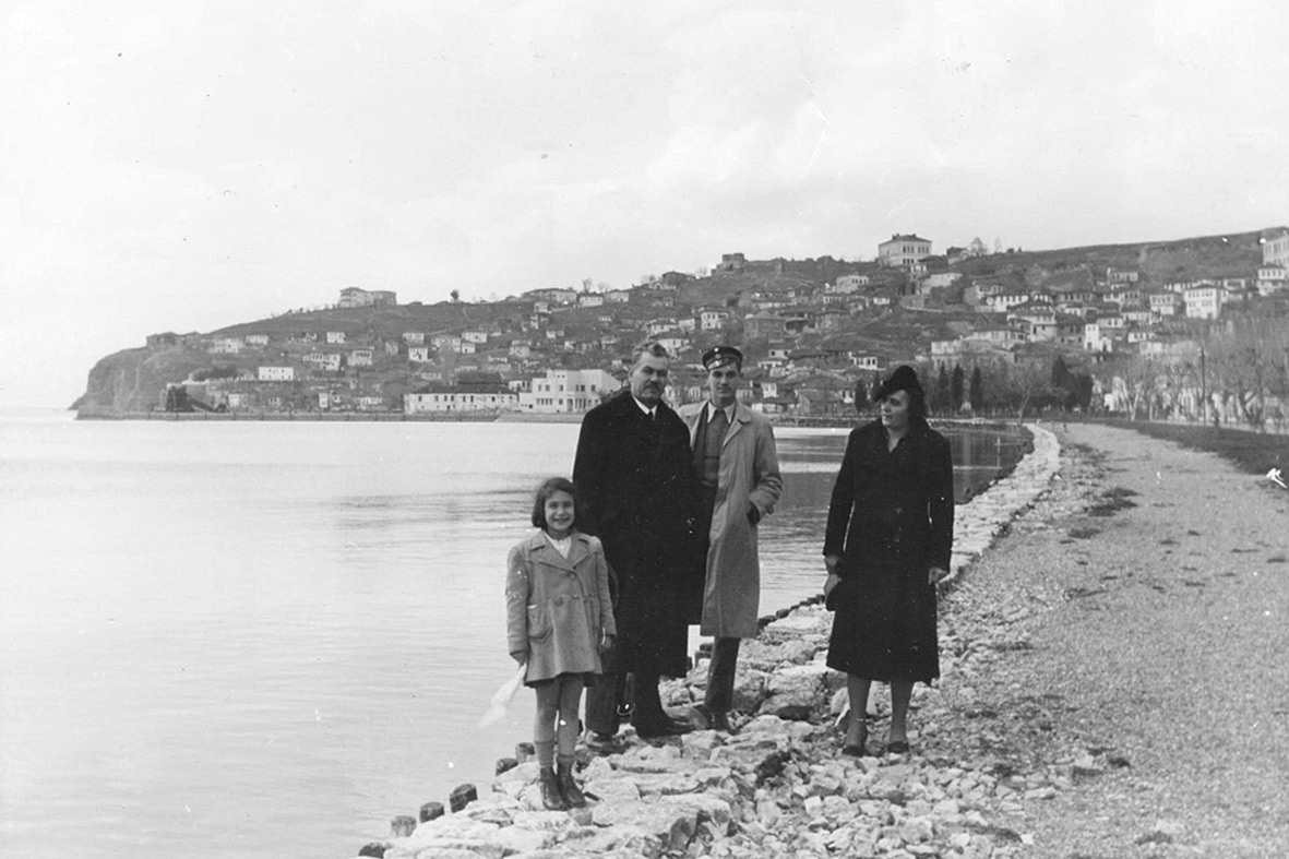 Dimitar Raev